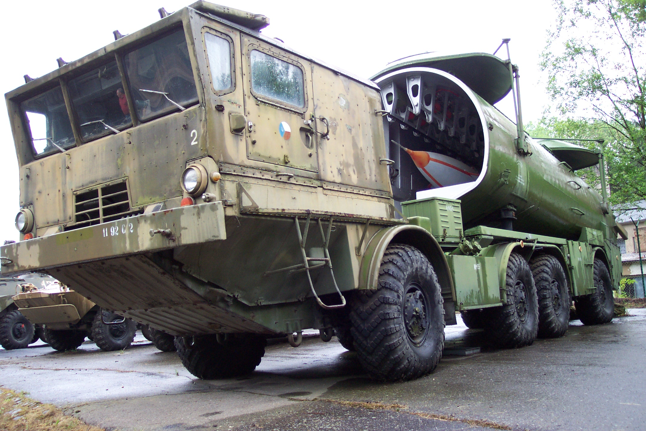 Military vehicles (Tu-143 reconnaissance drone launcher, carriages etc) in the army museum in Lešany Picture shows BAZ-135MB rocket launcher